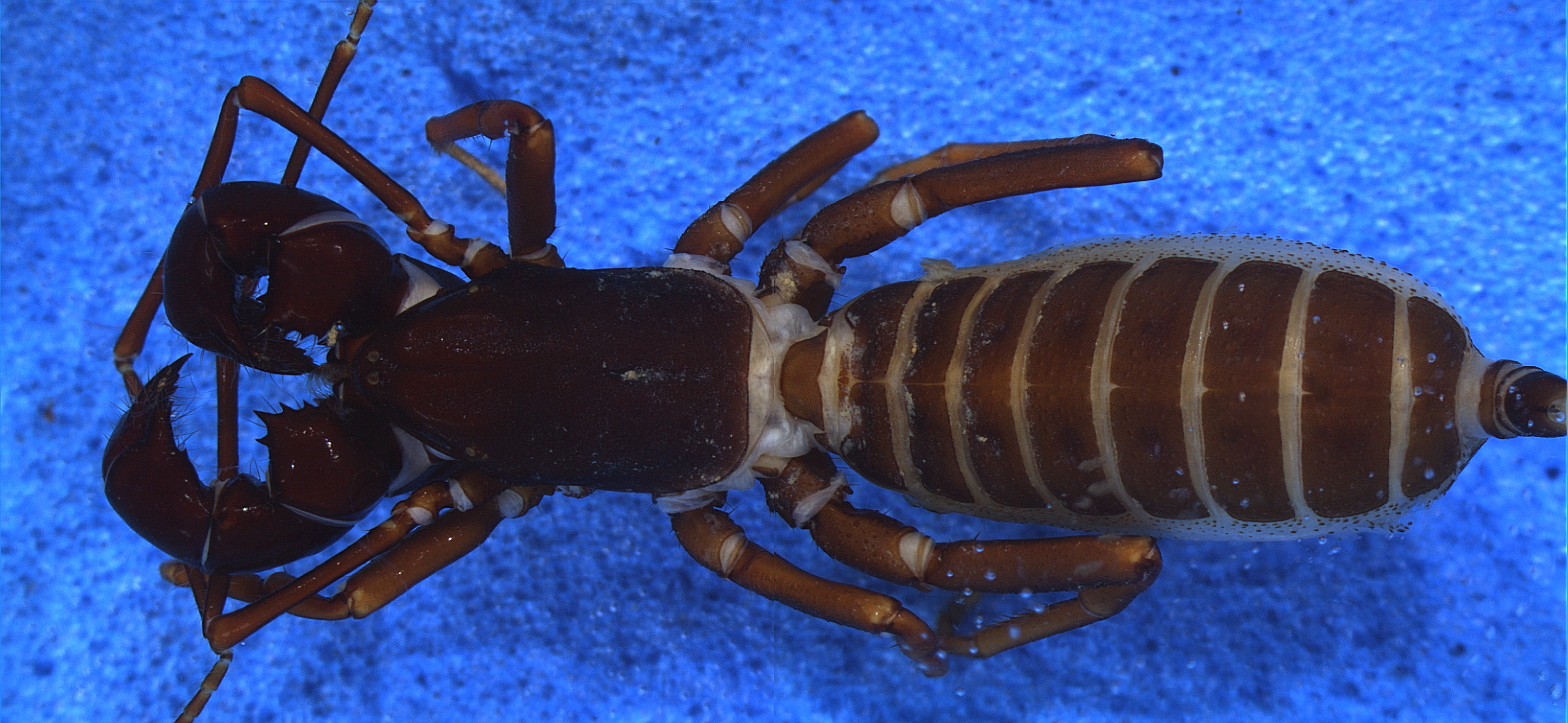 Dorsal View, 8x